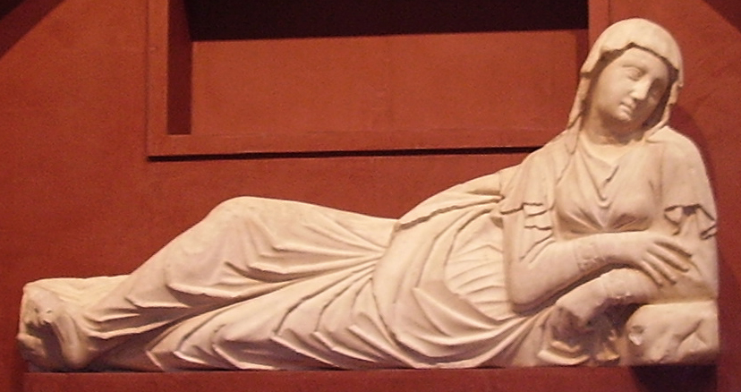 Lunette. Detail from the reconstruction of the old facade of Santa Maria del Fiore, Duomo of Florence, Italy, by Arnolfo di Cambio.